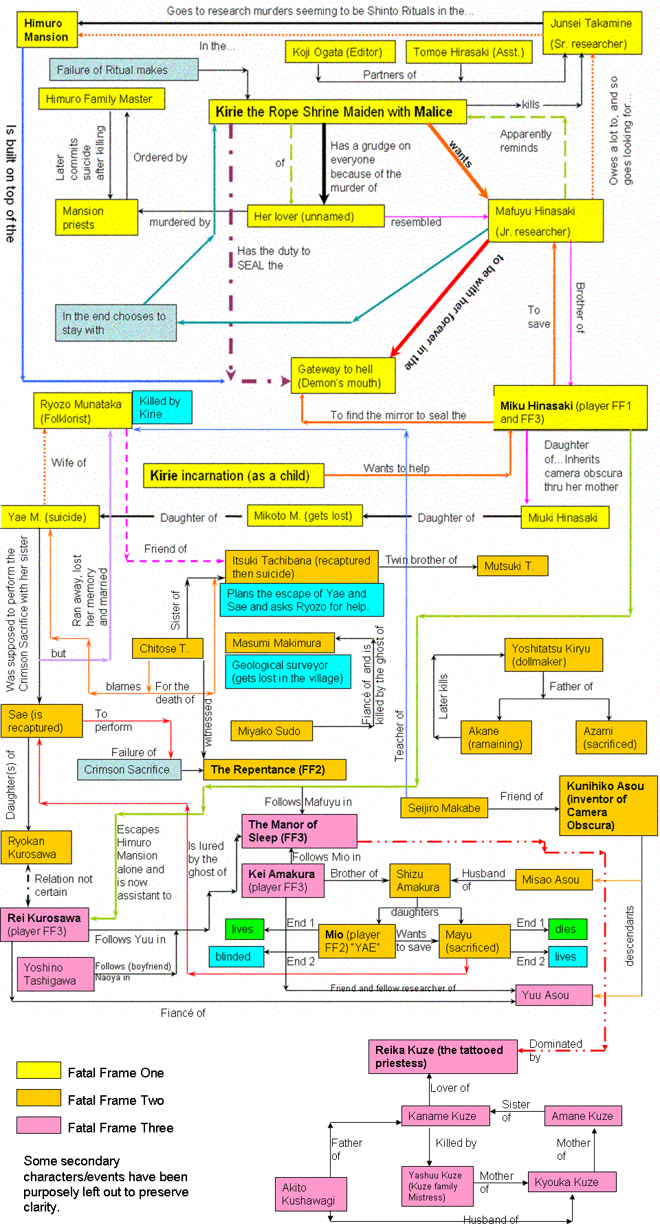 A chart listing the main character relations in the first three Fatal Frame games. Fatal Frame (Project Zero in Europe and Australia, 零〜zero〜 in Japan) is a survival horror video game series by Tecmo.